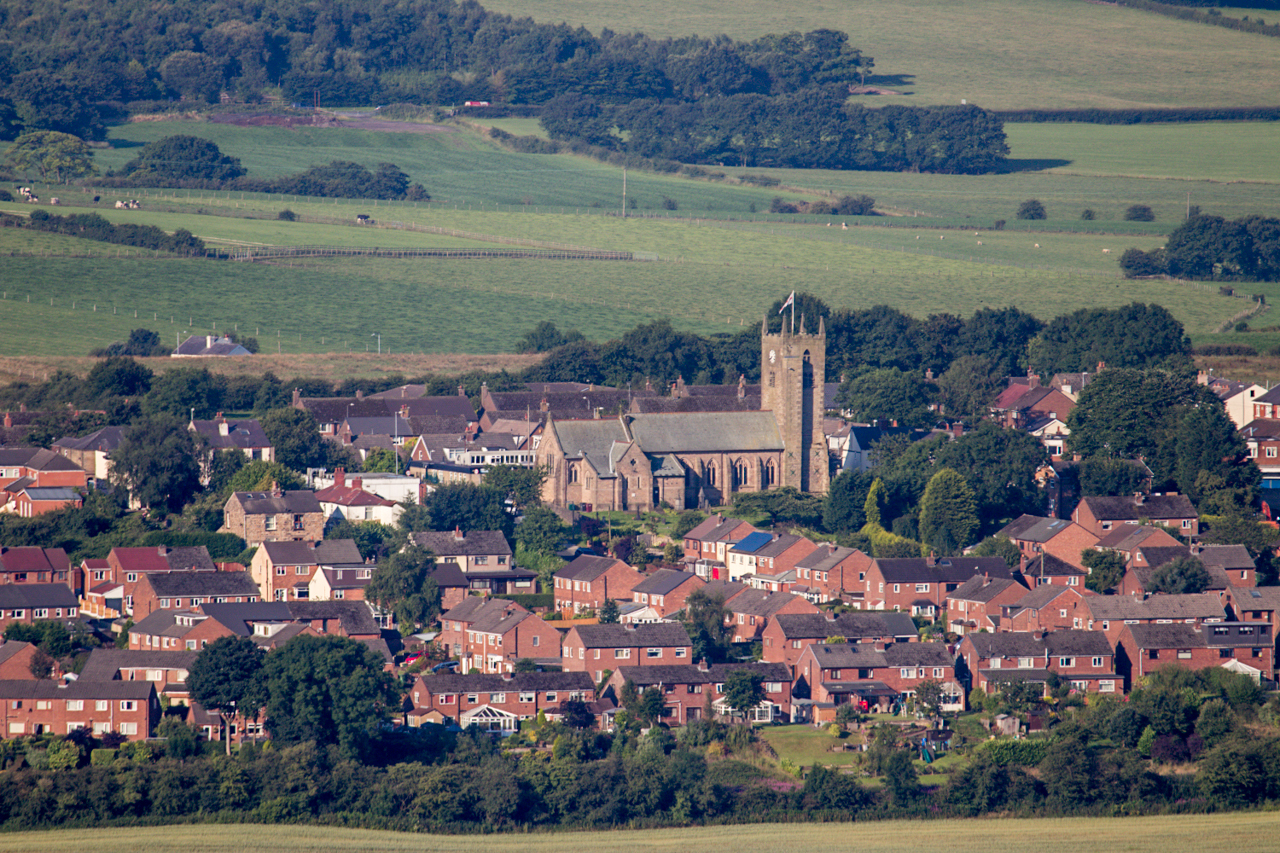 Part of Blackrod, Greater Manchester, seen from the northeast from Winter Hill, showing St Katharine's parish church